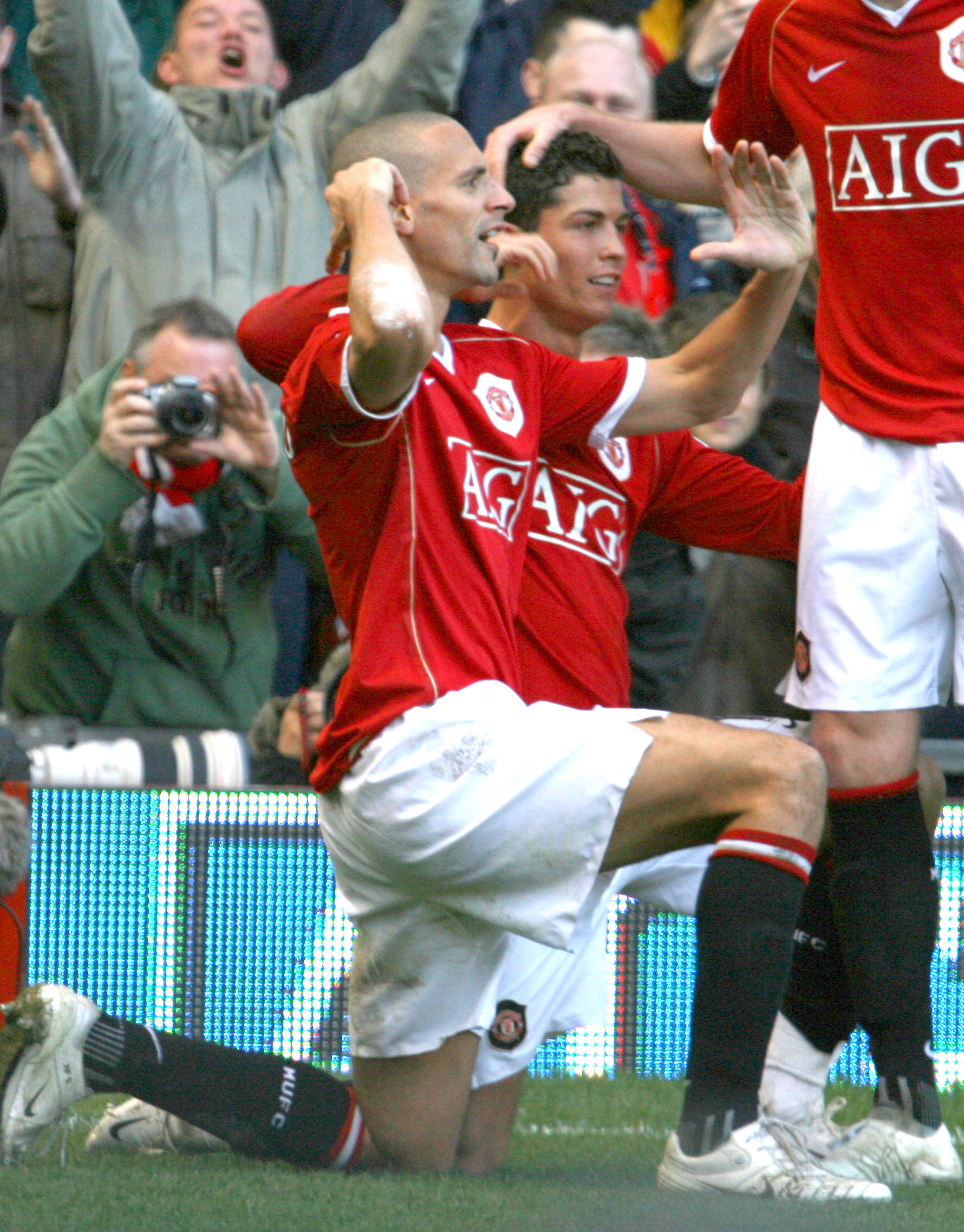 Manchester United players Rio Ferdinand and Cristiano Ronaldo celebrating a goal.